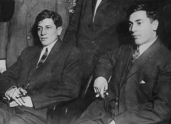 Harry "Gyp the Blood" Horowitz, left, and “Lefty Louis” Rosenberg, after their arrest in 1912